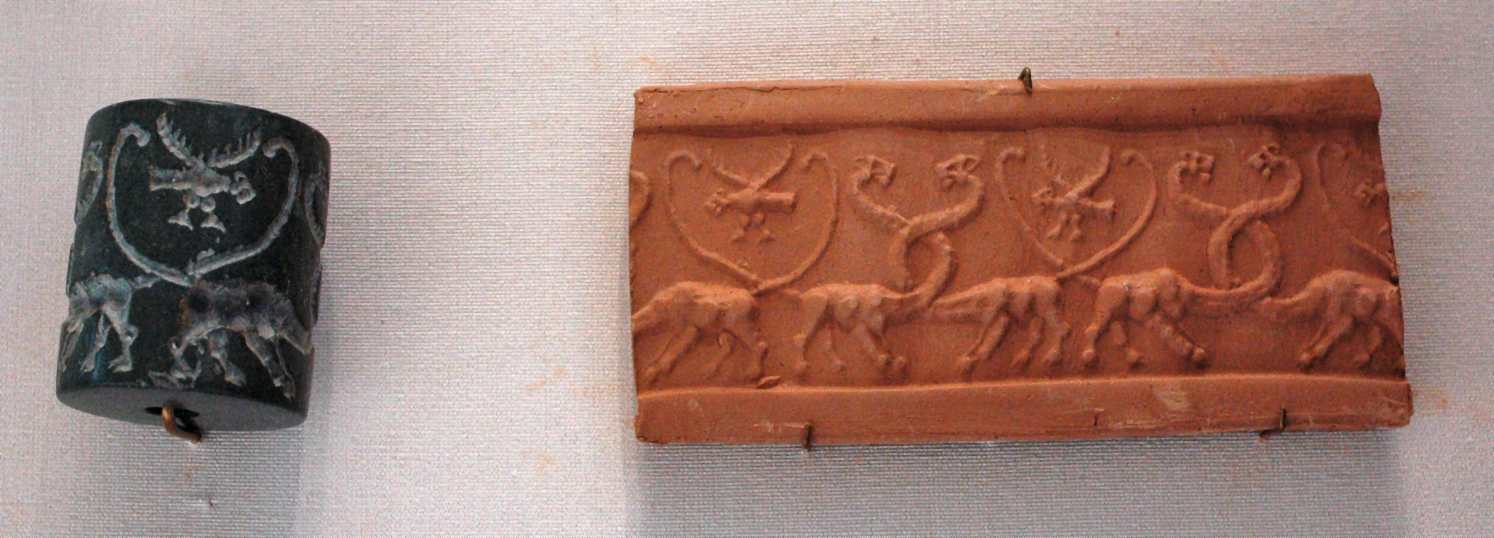 Jasper cylinder seal and impression: Serpopards (monstrous lions) and lion-headed eagles, Mesopotamia, Uruk period (4100 BC–3000 BC).